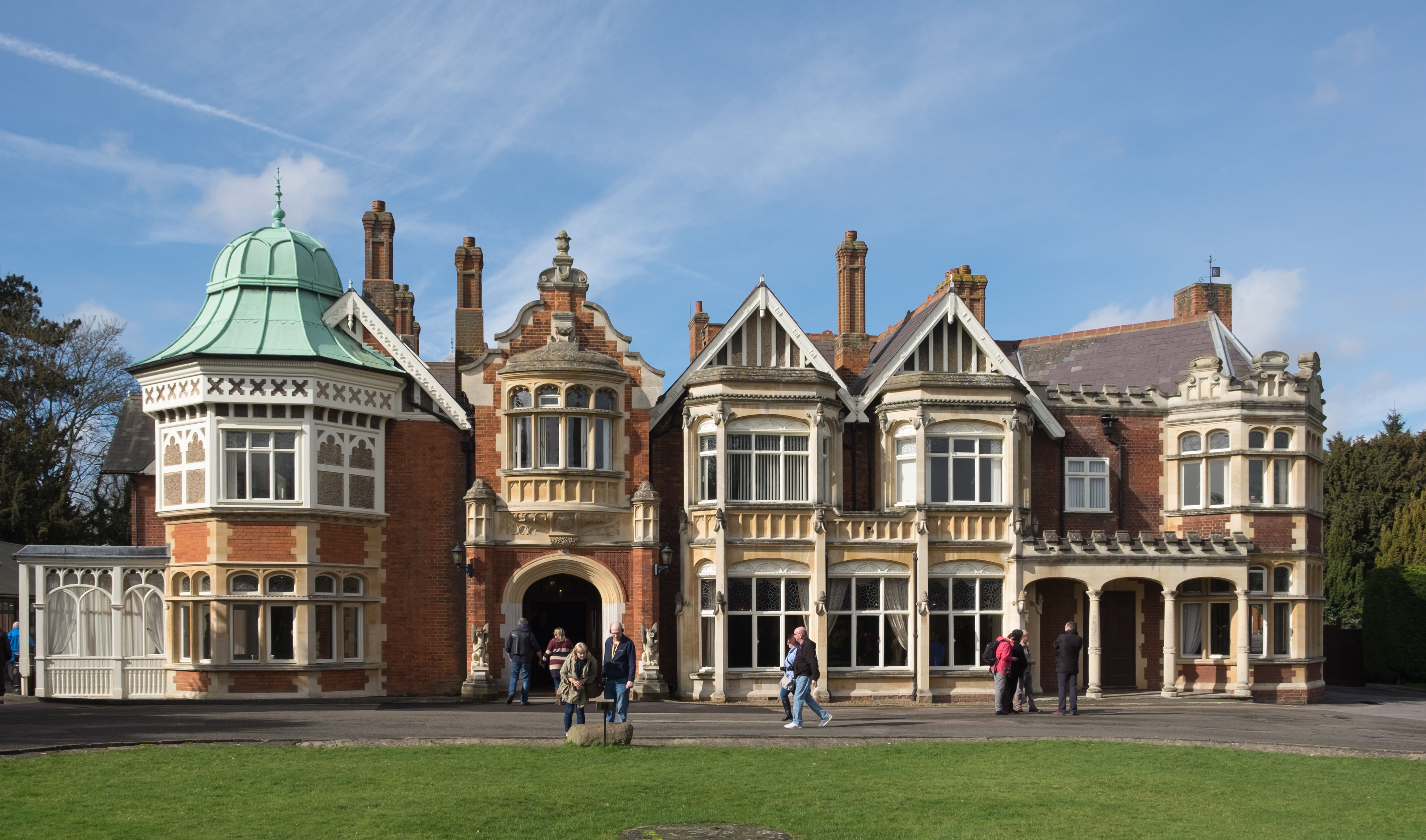 Bletchley Park Mansion. This house was the headquarters for British codebreakers during World War II. The mansion is a Grade II Listed Building in England.